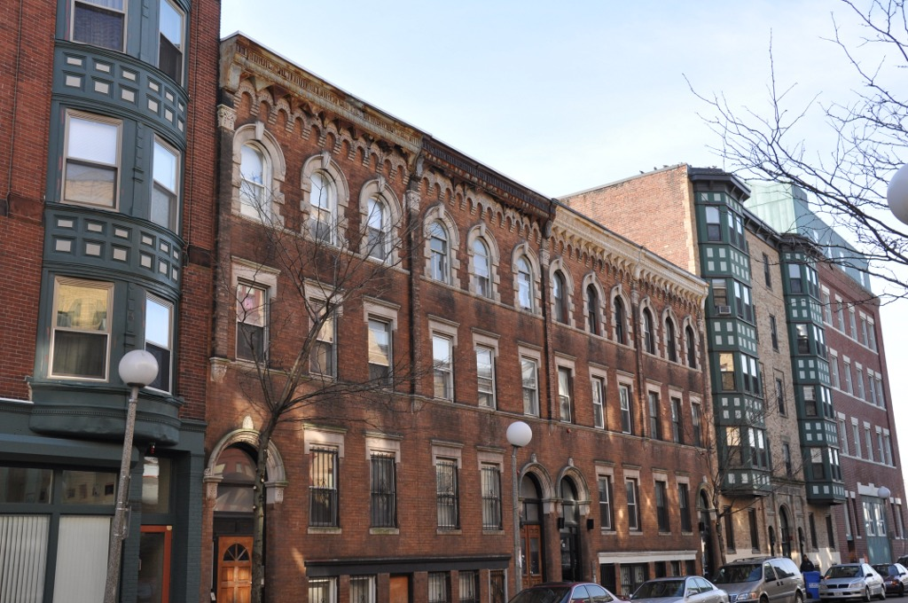 View of Coventry Street in the Lower Roxbury Historic District of Boston, Massachusetts.